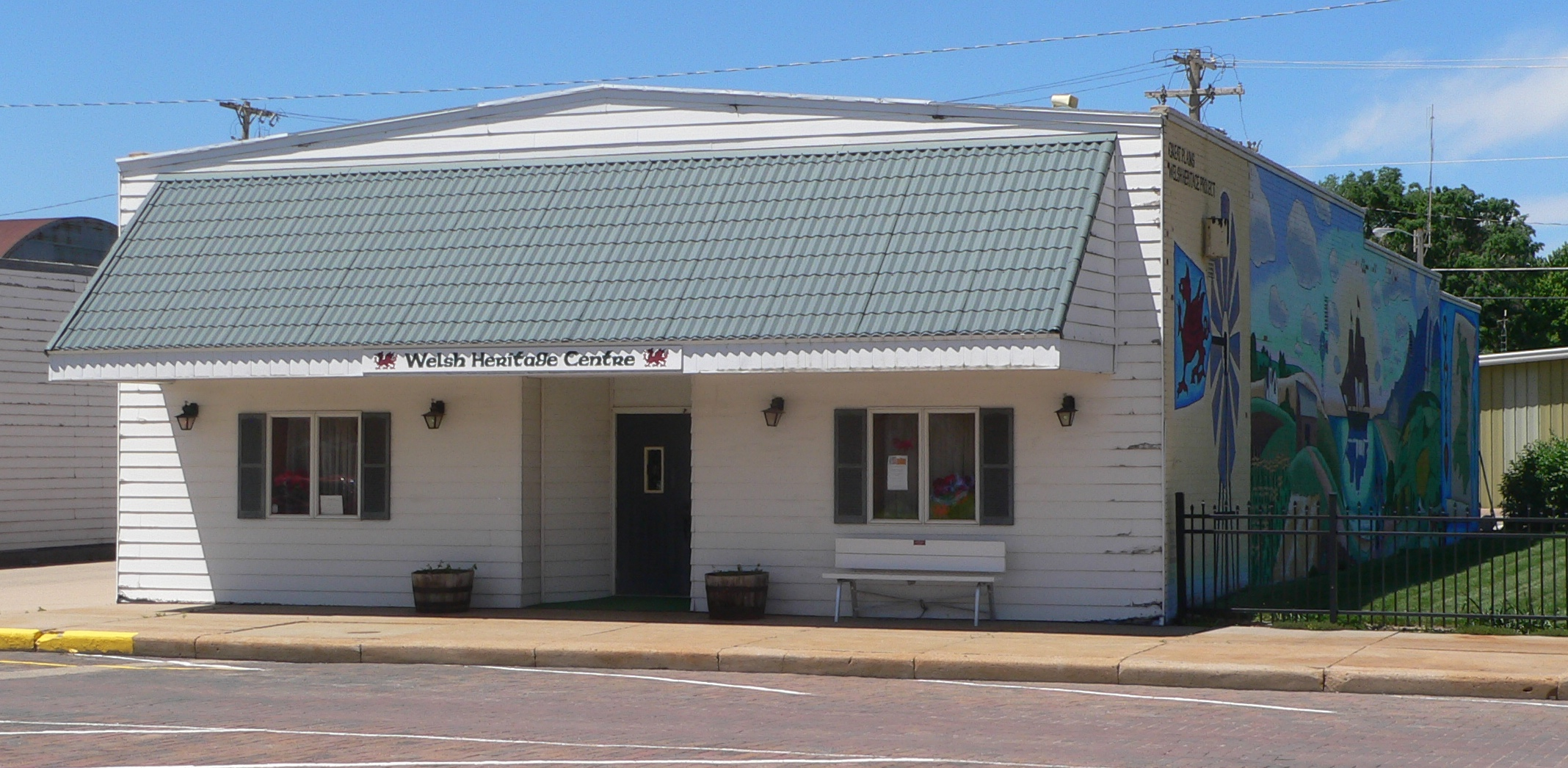 Welsh Heritage Centre, located at southwest corner of 7th and E Streets in Wymore, Nebraska; seen from the northeast.